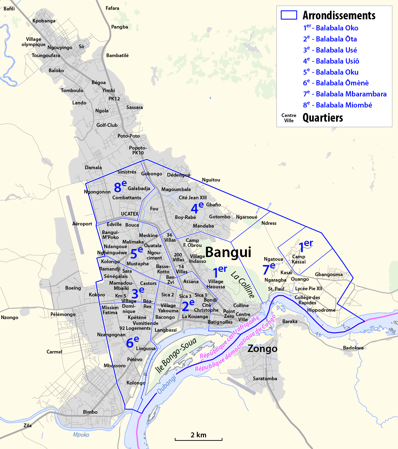 Map of the Arrondissements and Quartiers in the agglomeration of Bangui